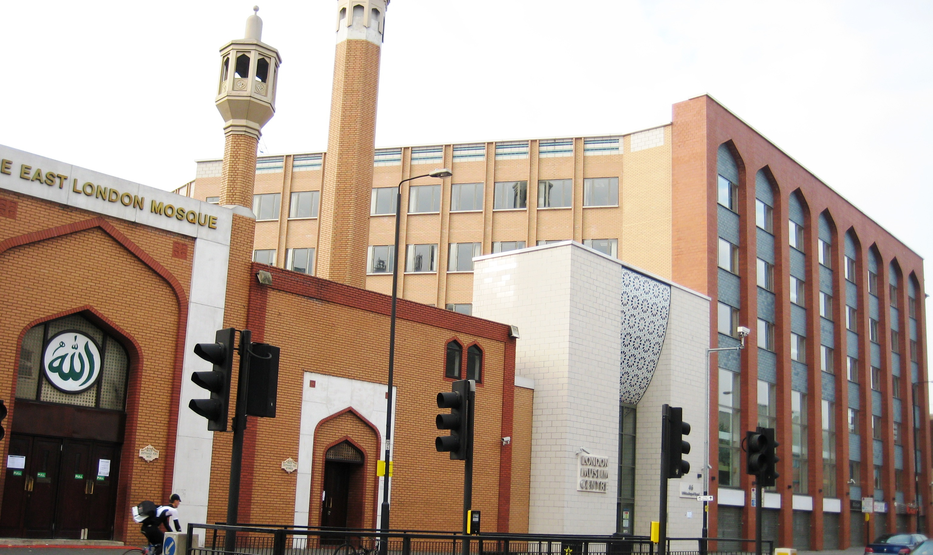 East London Mosque & London Muslim Centre - angled view from Whitechapel Road.